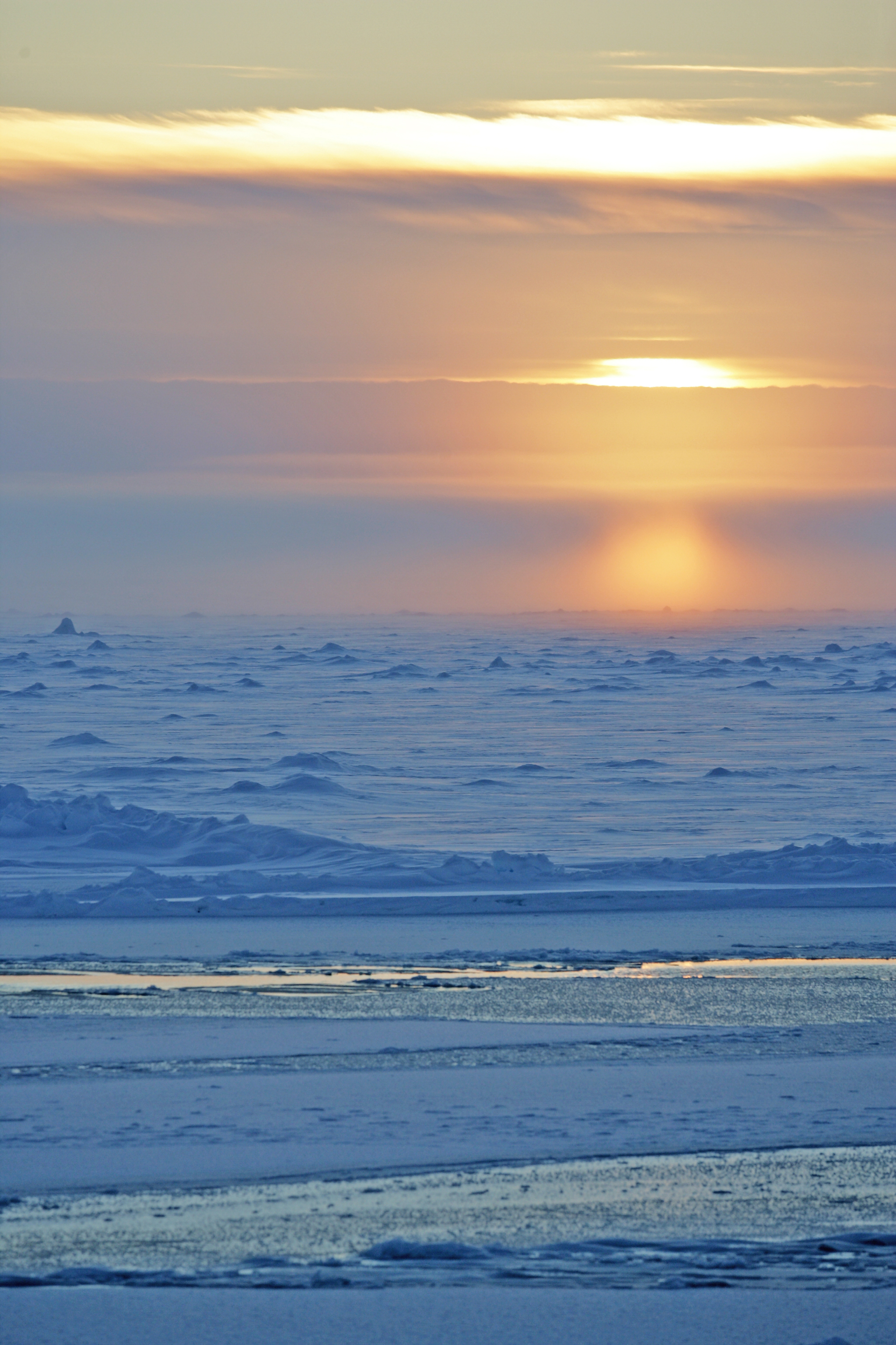 Arctic sunset. Arctic Ocean, north of western Russia.